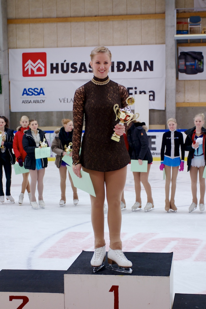 Senior Icelandic National Champion 2012